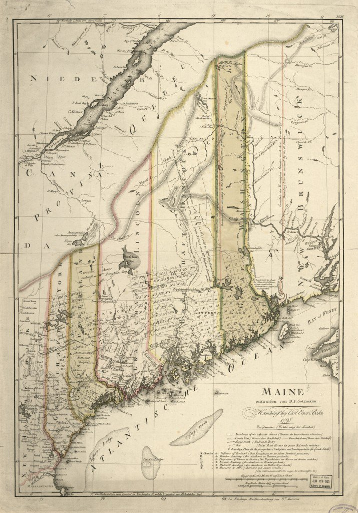 1798 map of Maine